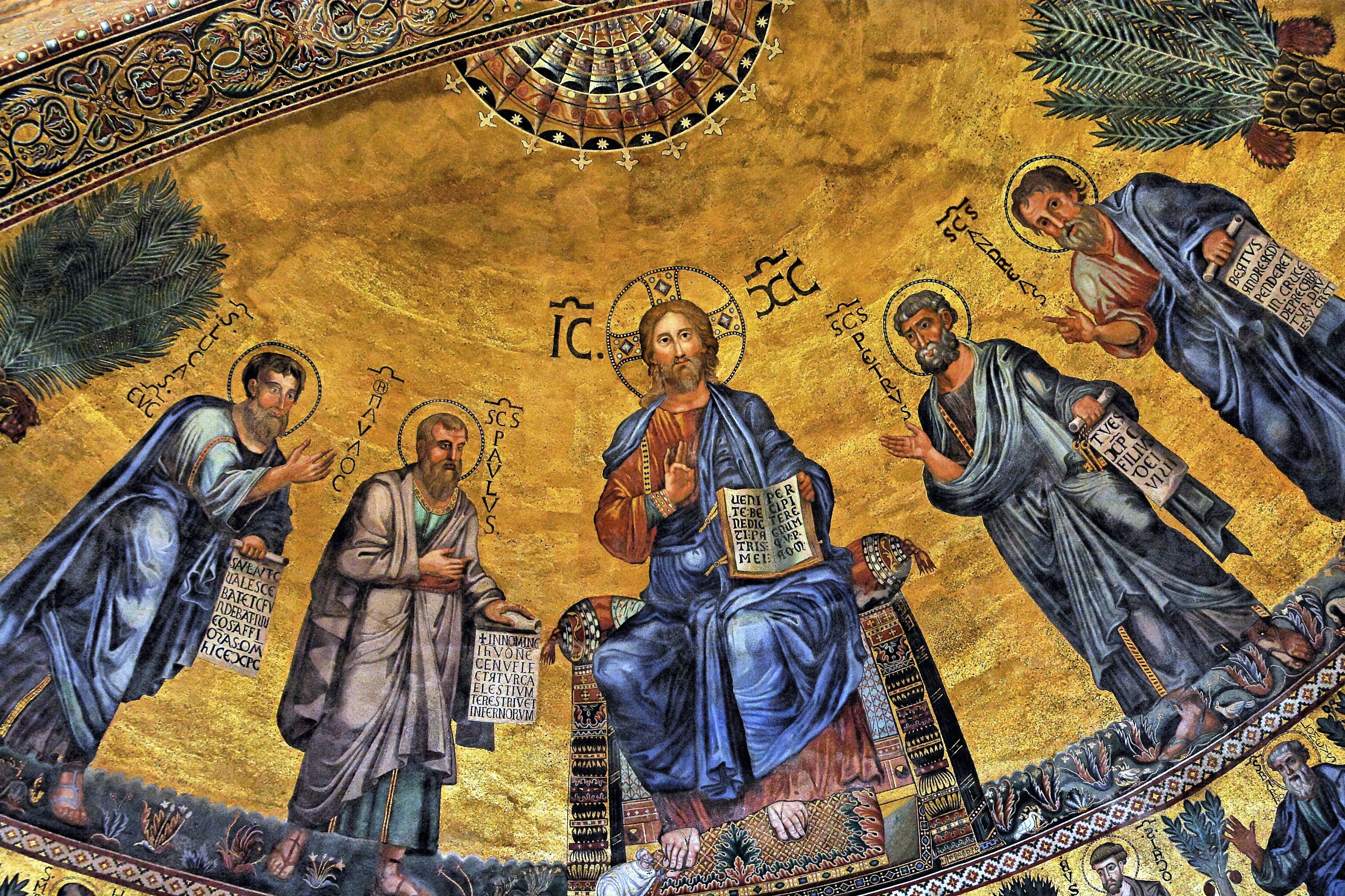 Apse mosaic of the Basilica of Saint Paul Outside the Walls (1220) - Roma - Italy. The apse mosaic was made by Venetian artists. Christ is flanked by the Apostles Peter, Paul, Andrew and Luke. The small figure near Christ's feet is Pope Honorius III, who ordered the mosaic. Pope Honorius III (1148 – 1227), born Cencio Savelli, was Pope from 1216 to 1227.